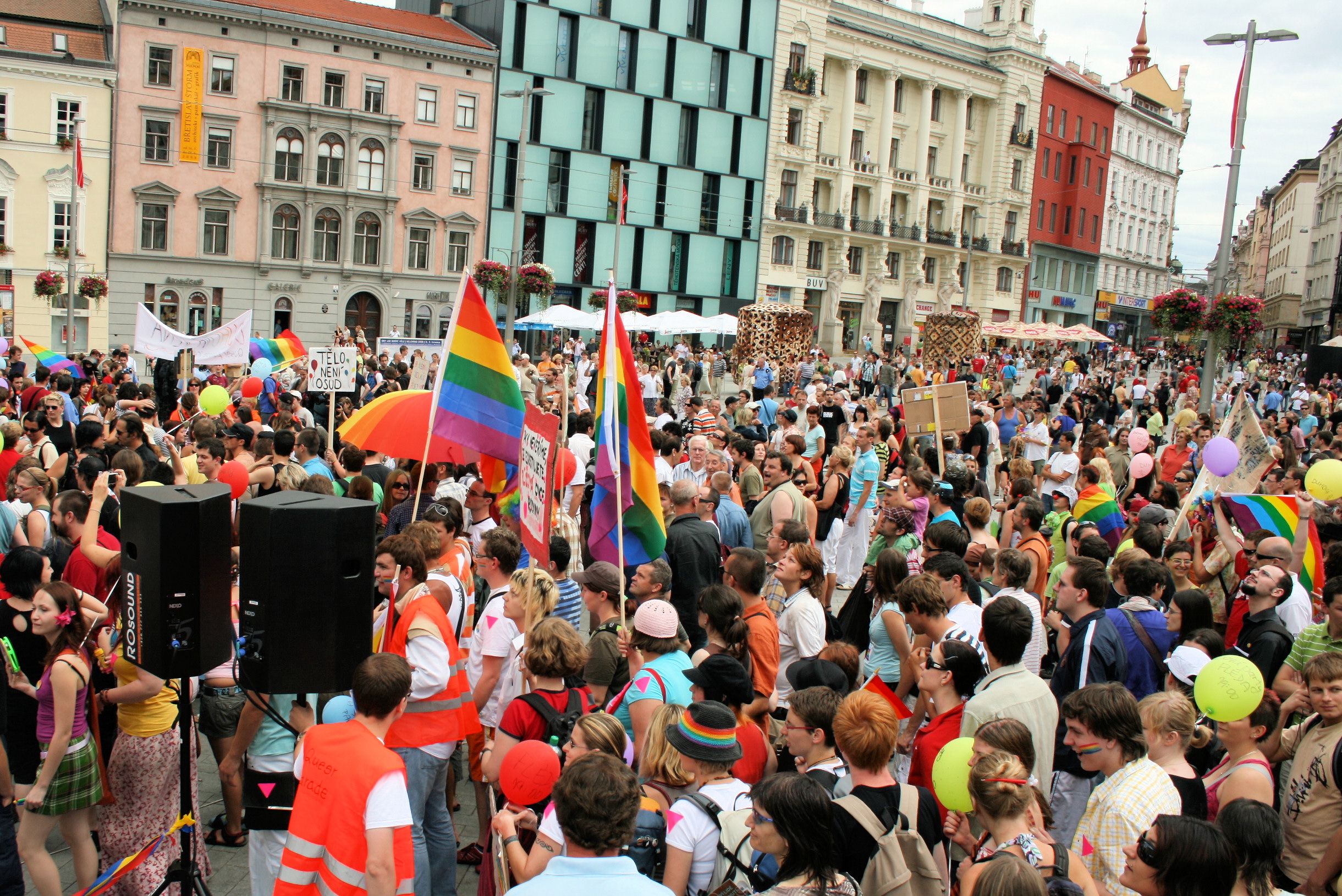 LGBT pride parade in Brno, Czech Republic.